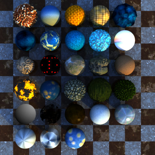 "FS Textures 8" preview image by Marc Carson, created using Art of Illusion's procedural textures.